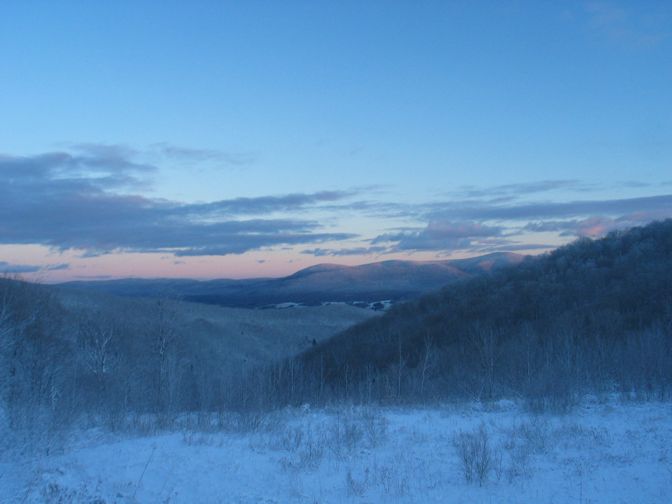 Vista overlooking the Berkshire Mountains of Western Massachusetts from the New York State border at sunset. The Berkshires were formed over 500 million years ago when the continent of Africa collided with North America, causing the landmass to buckle into mountainous terrain. Today, along with the rest of the Appalachian Mountain range, the mountains are among the oldest in the world as evinced by their gently curving form; this is the result of millions of years of erosion.